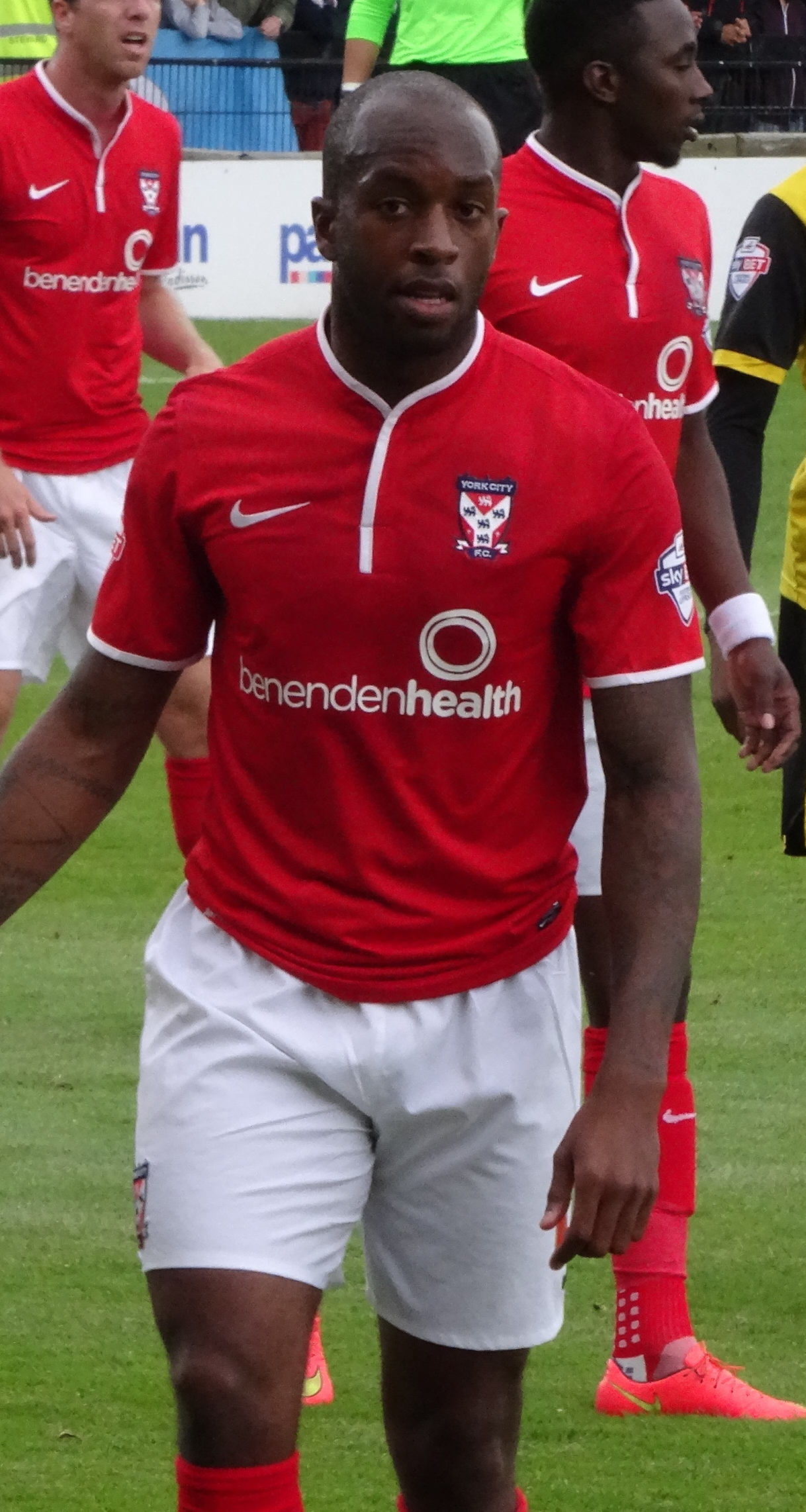 Anthony Straker playing for York City against Northampton Town at Bootham Crescent, York on 16 August 2014